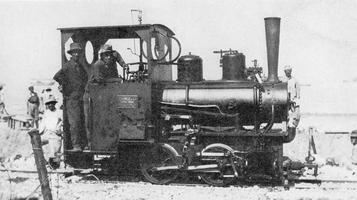 Italian narrow gauge steam locomotive in Valona (24 July 1916). This is a 20 hp Borsig locomotive.